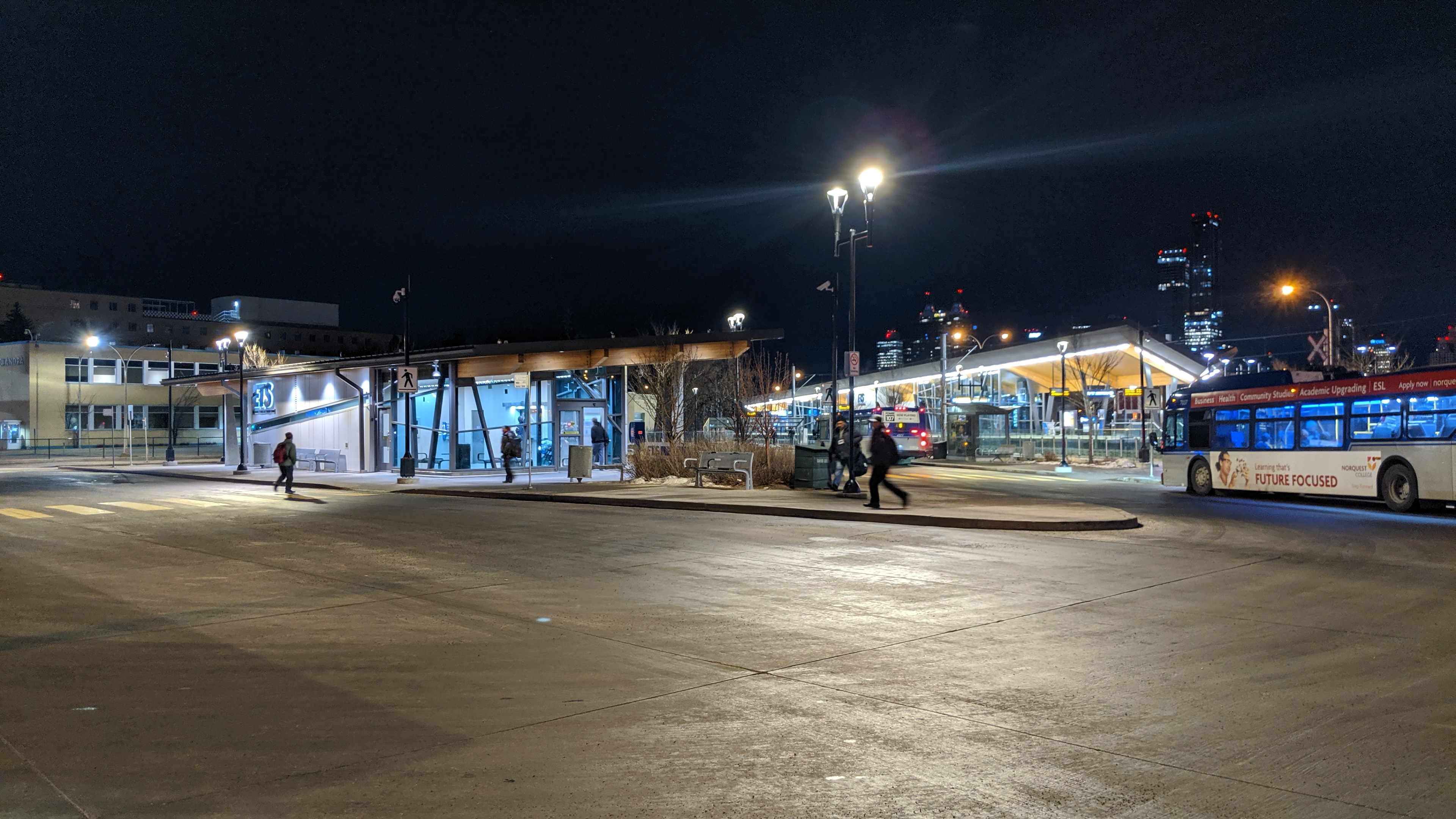 Looking southeast at the Kingsway/Royal Alex Transit Centre in the Early Morning in 2019.